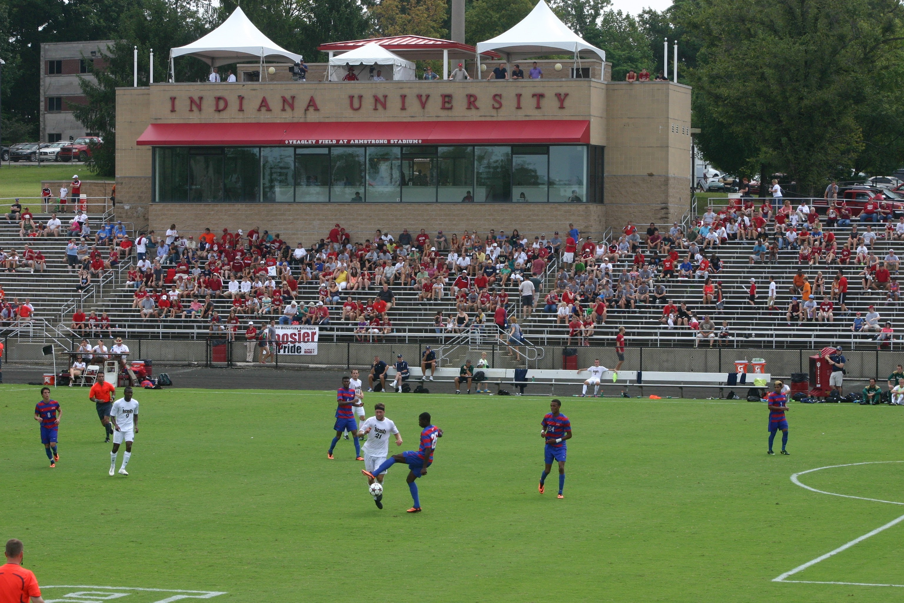 College soccer teams compete on Yeagley Field at Bill Armstrong Stadium on the campus of Indiana University in Bloomington, Indiana in 2013